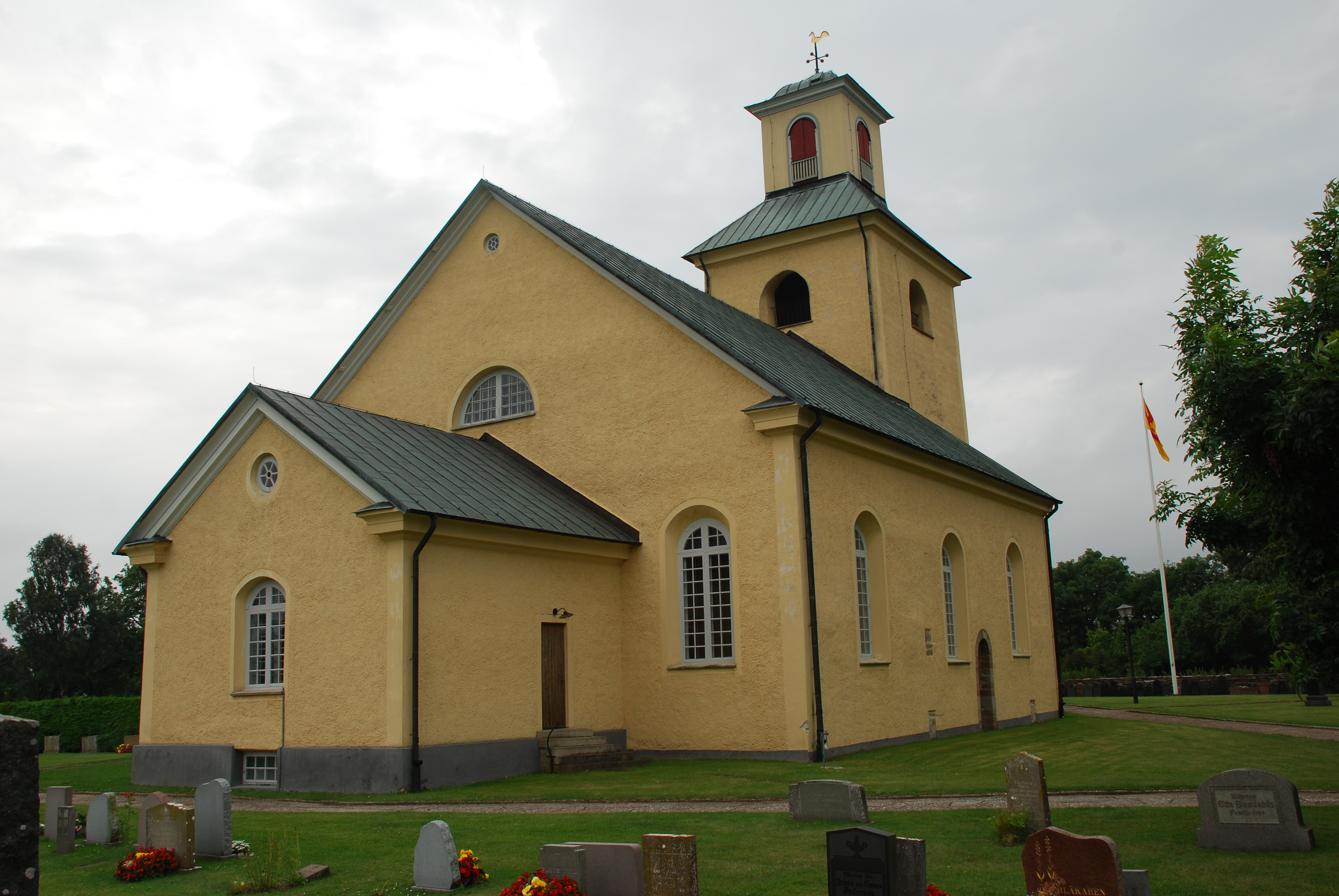 The church of Böda